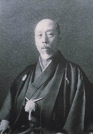 Murayama Ryohei（村山 龍平）, the first president of Asahi Shinbun (japanese newspaper). I made a mistake in the name of this file. His name is Ryohei, not Ryuhei.